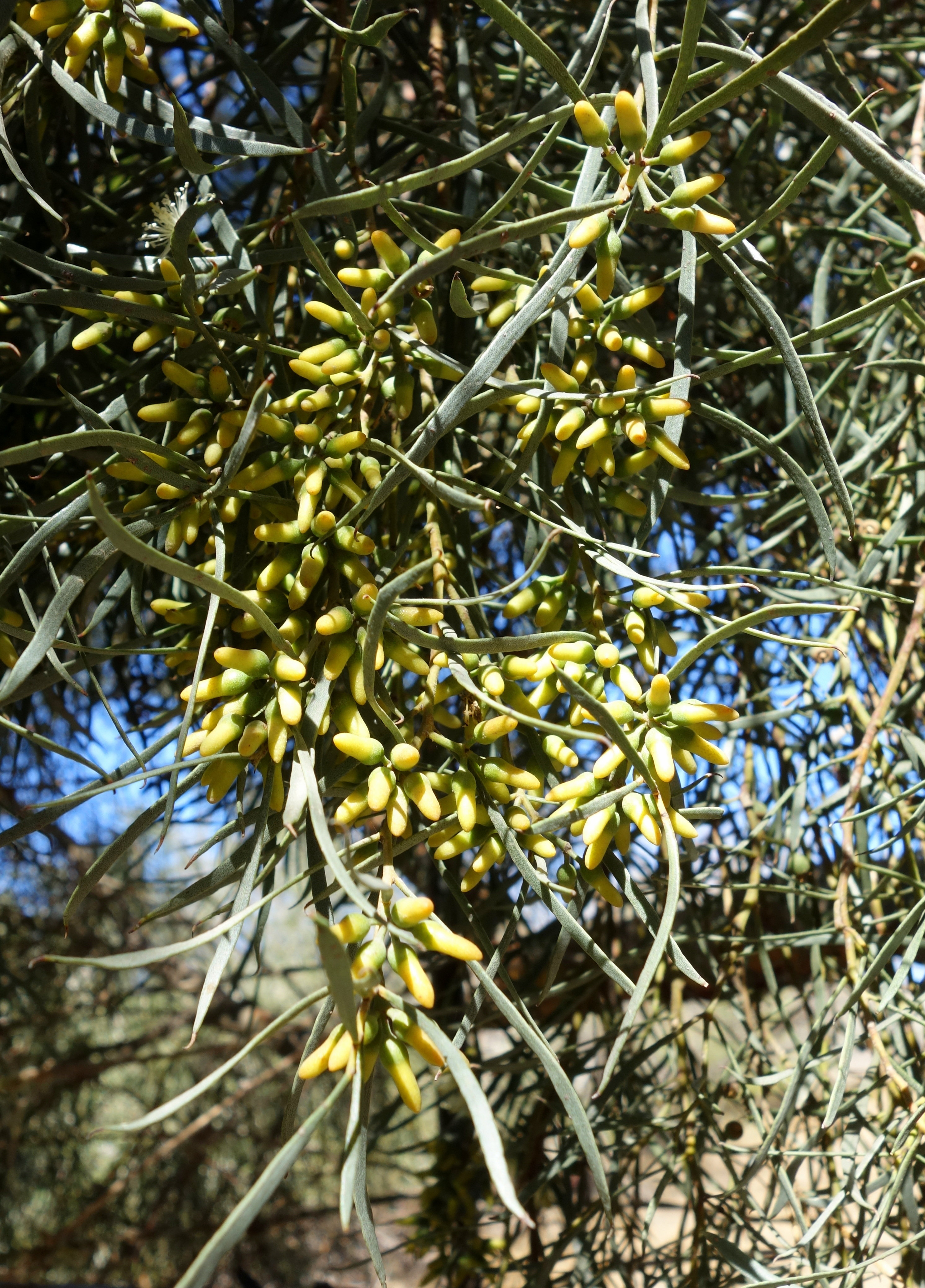 Botanical specimen in Leaning Pine Arboretum, California Polytechnic State University, San Luis Obispo, California, USA.